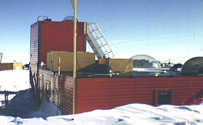 Plateau Station Antarctica. Picture taken by me in December 1968 with my 16mm Bolex.